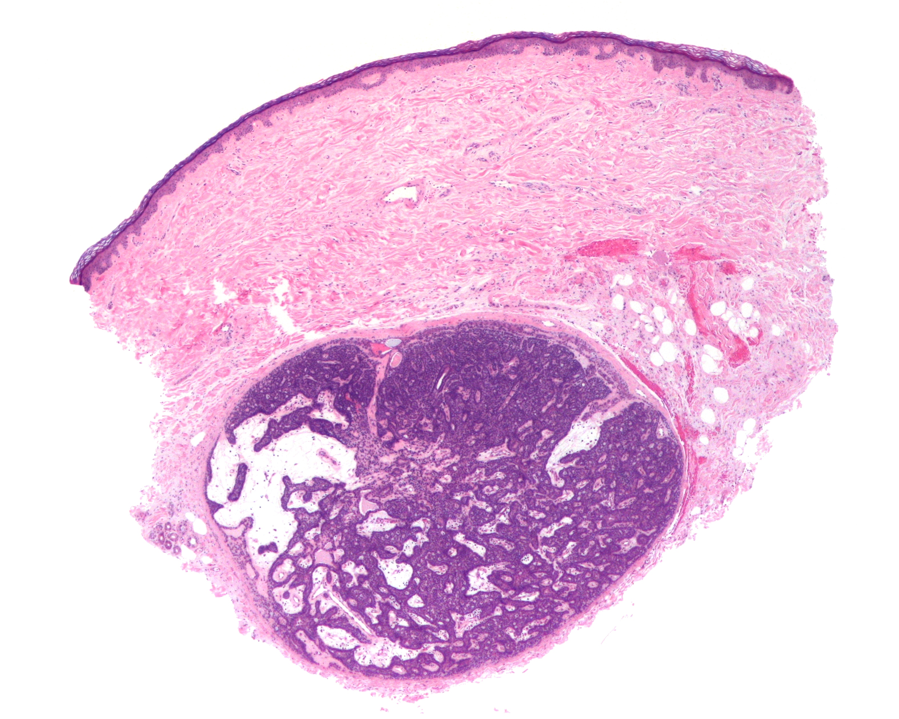 Very low magnification micrograph of a eccrine spiradenoma, also spiradenoma.[1] H&E stain. Eccrine spiradenomas are deep dermal lesions that are, classically, painful. Related images Very low mag. Low mag. Intermed. mag. High mag. Very high mag. References ↑ article/1062079 at eMedicine